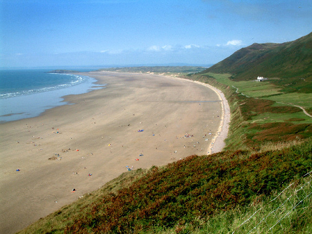 Rhossili Bay. Taken from the pub beer garden.